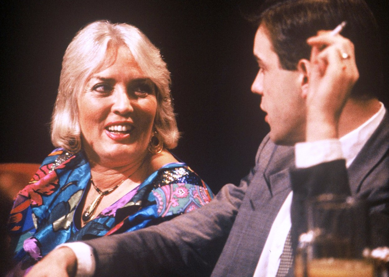 Xaviera Hollander and Malcolm Bennett appearing on After Dark on 28 October 1989. Other guests included Mary Stott and Hans Eysenck. More here.